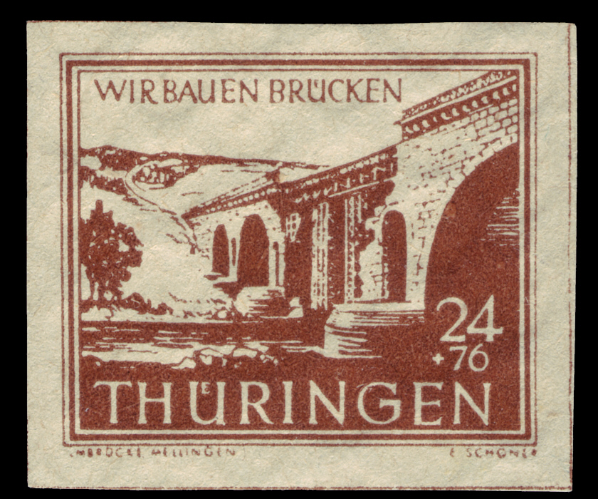 series of stamps of the Soviet occupation zone, reconstruction of the Thuringia bridges Ausgabepreis: 24+76 Pfennig First Day of Issue / Erstausgabetag: 30. März 1946 Michel-Katalog-Nr: 115 (Alliierte Besatzung (Thüringen))